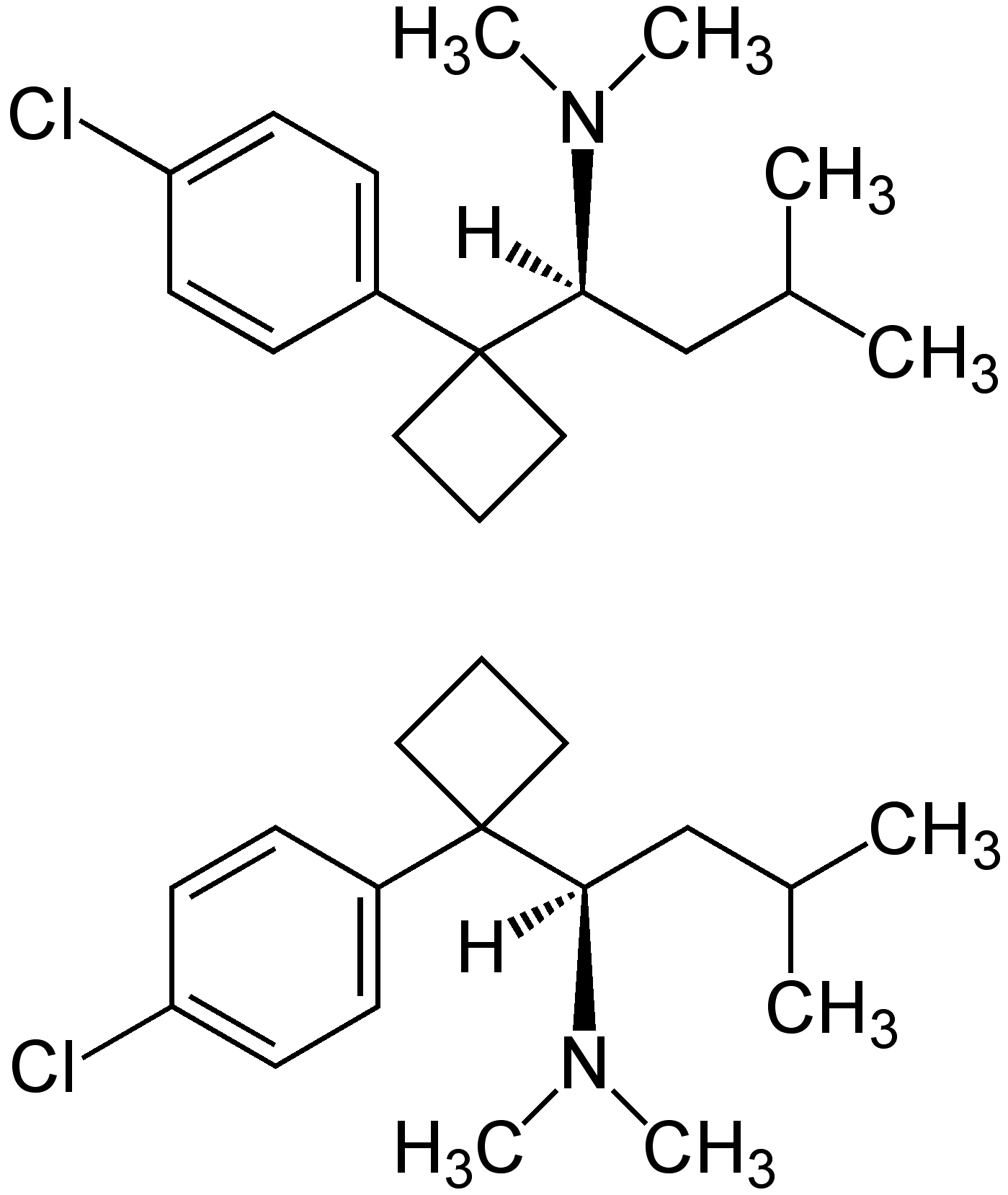 Sibutramine_Enantiomers_Structural_Formulae